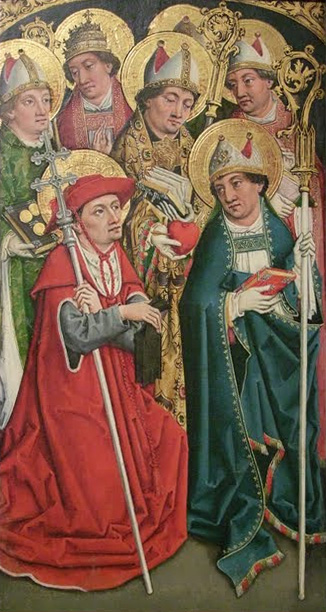 Master of the Drapery Studies: "Seven ecclesiastical dignitaries", between 1480 and 1485, oil on panel, 72 x 39 cm